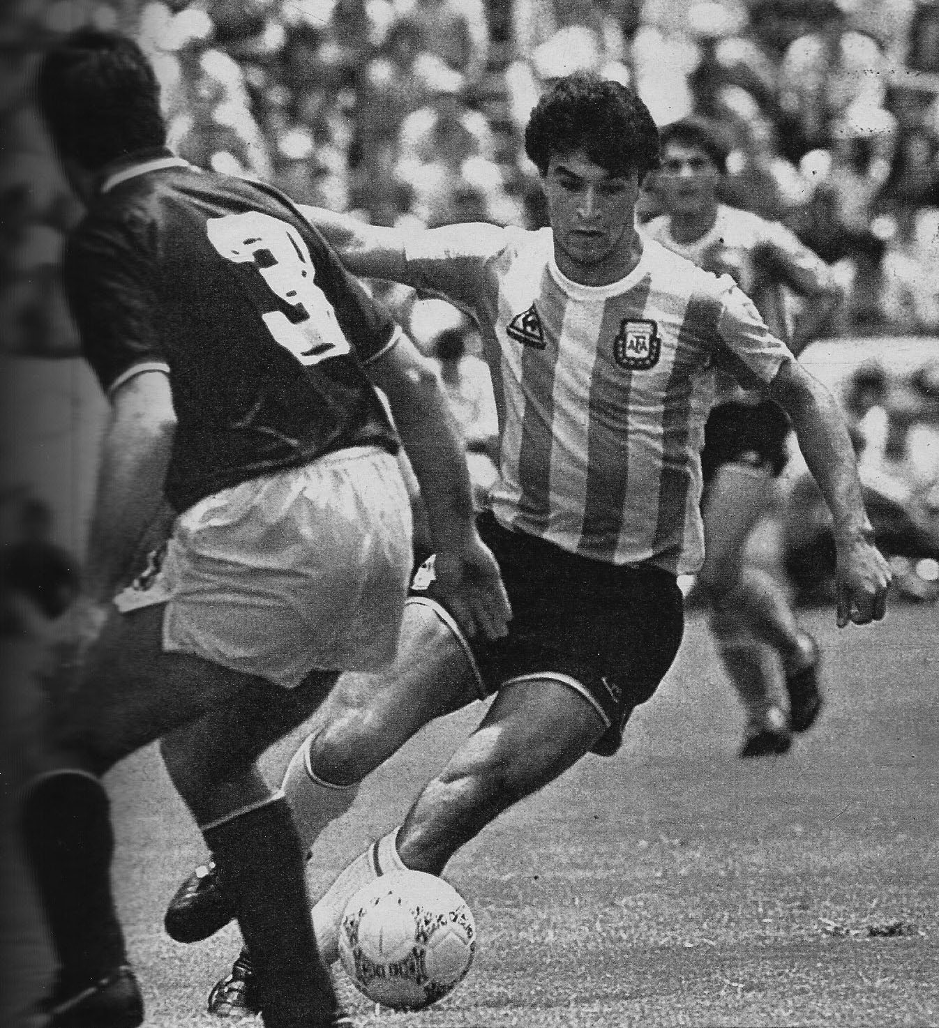 Argentine striker Claudio Borghi dribbling Italy defender Antonio Cabrini, during the 1986 World Cup.